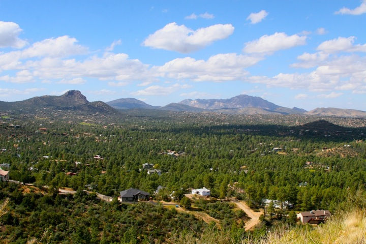 View over Prescott looking north to Thumb Butte and Granite Mountain (Arizona). The four mountains pictured from left-(west) to north are: Thumb Butte, Sugarloaf Mountain-(due west of Prescott), Little Granite Mountain, and Granite Mountain. The rockclimbing Cliffs section can be seen on the southwest flank of Granite Mountain.